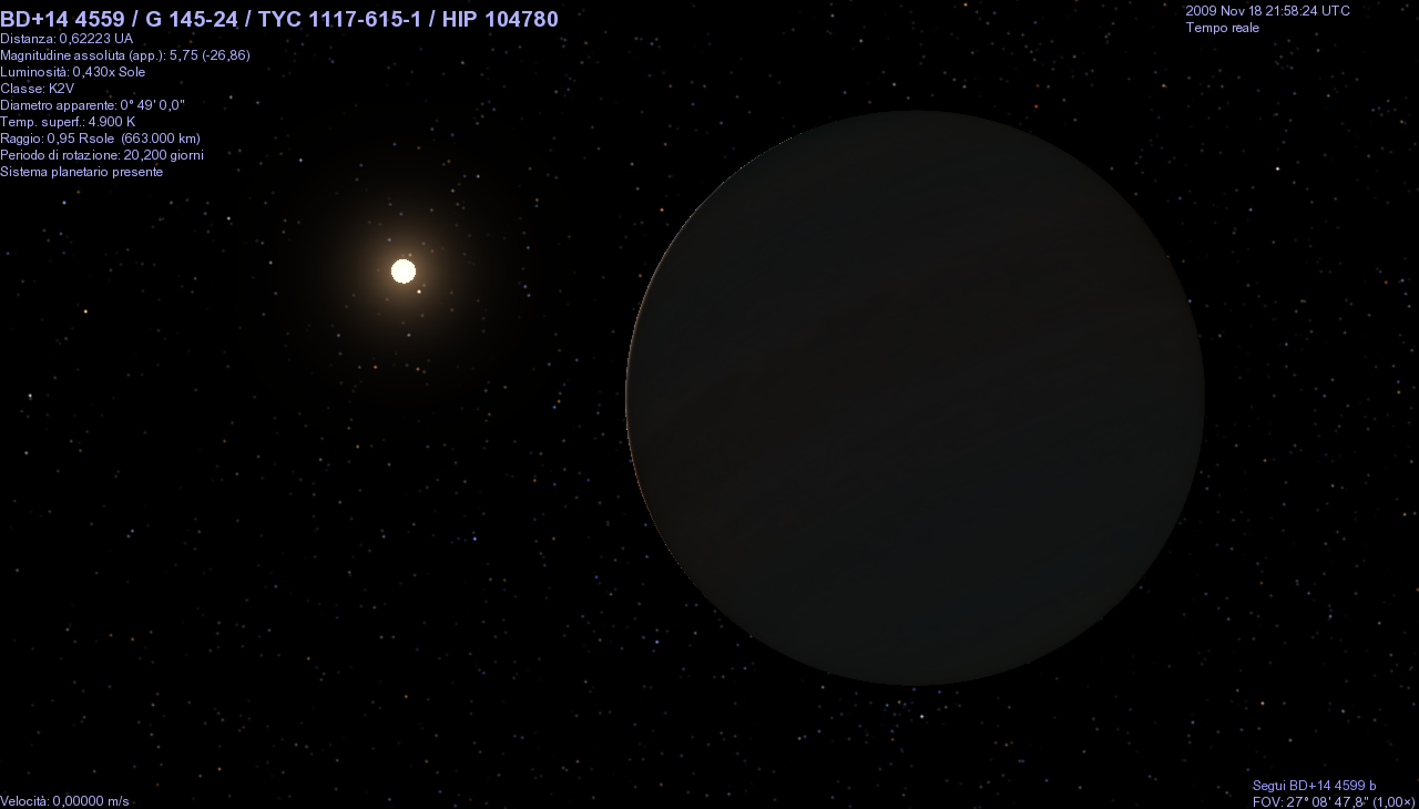 BD+14°4559 b, jovian planet.